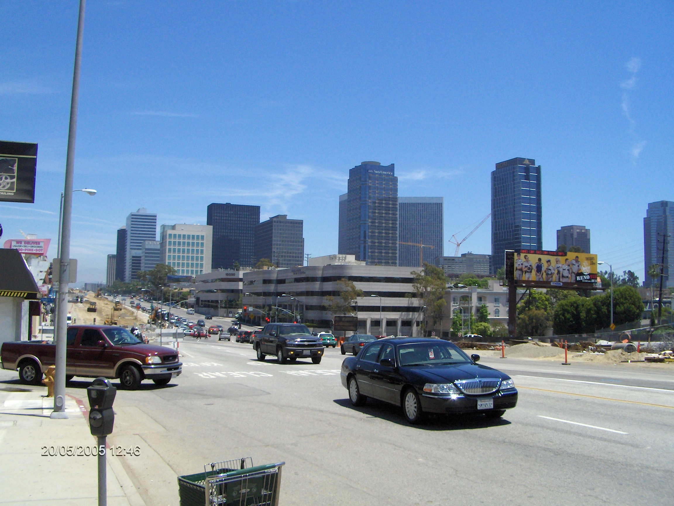 Santa Monica Boulevard in West Los Angeles — with the skyline of Century City.